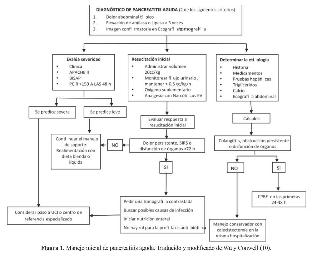 Guia tratamiento pancreatitis aguda